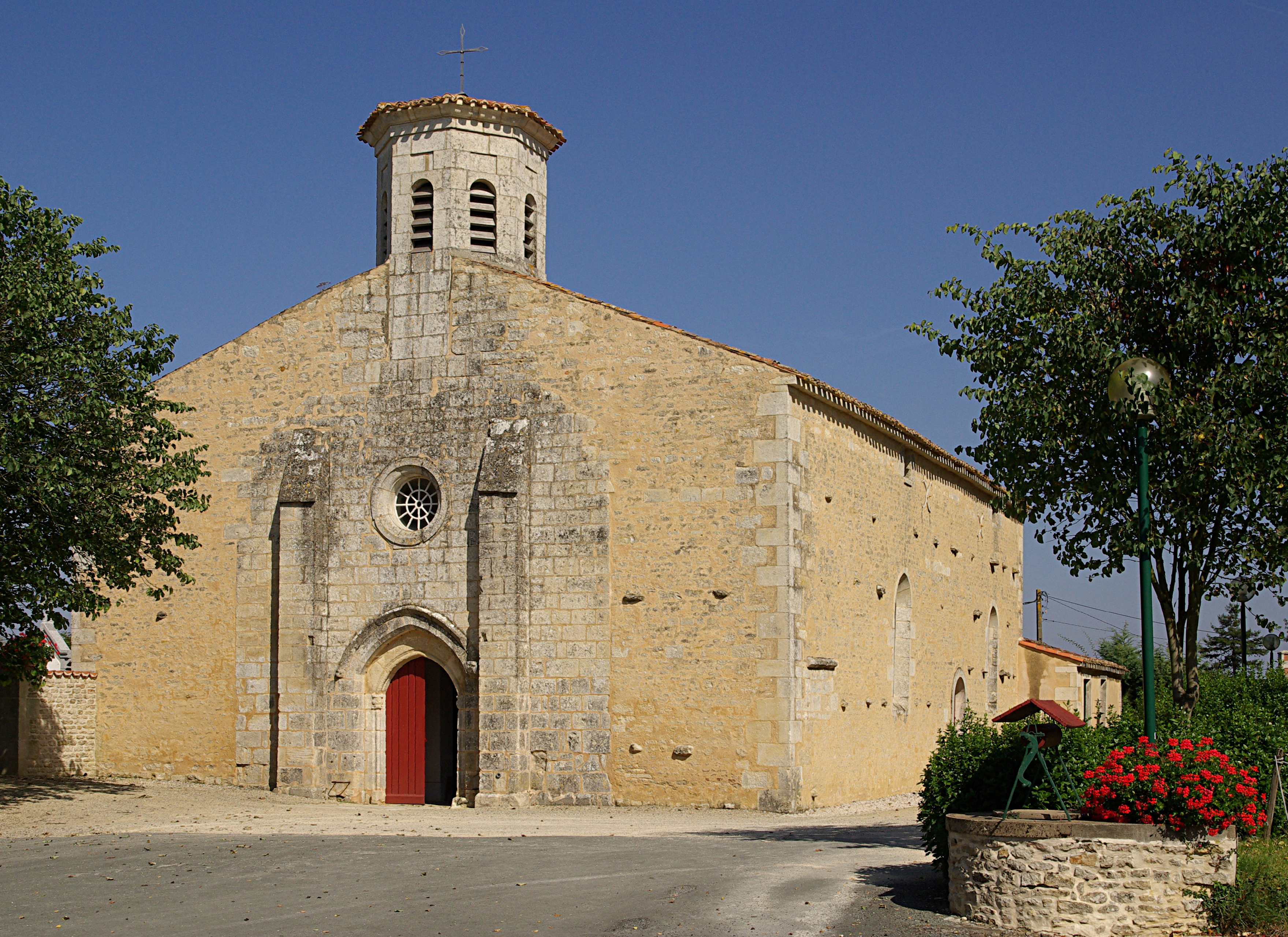 Notre-Dame' church in Liez village, Vendée.